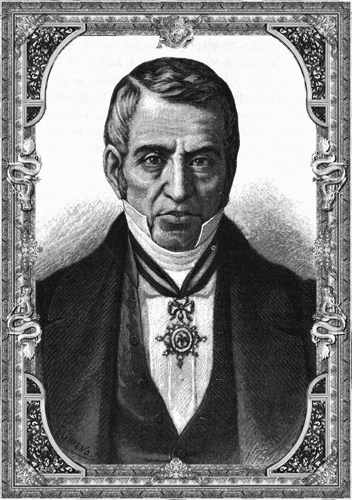 Self-portrait of Manuel de la Peña y Peña, Lithograph (1870-1907).